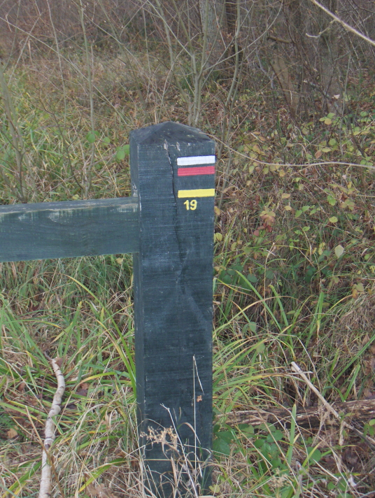 Trail blazing in forêt de Chantilly, Val-d'Oise, France